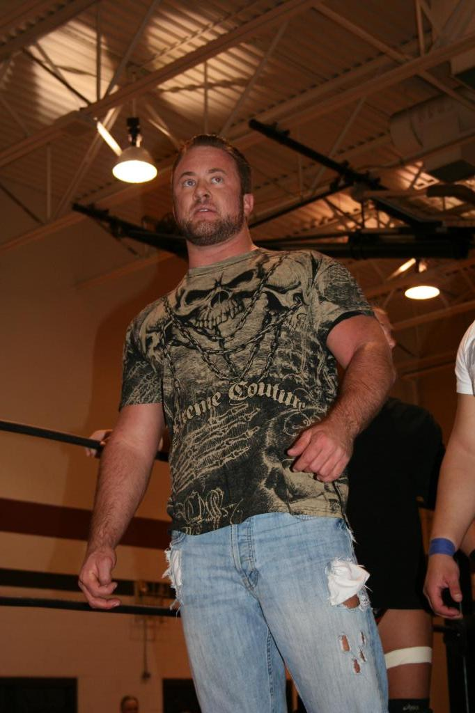 BJ Whitmer at the IWA Mid South 500th show